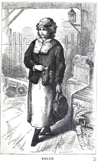 Illustration from: An Old-Fashioned Girl. By L.M. Alcott. Boston: Roberts Bros, 1870